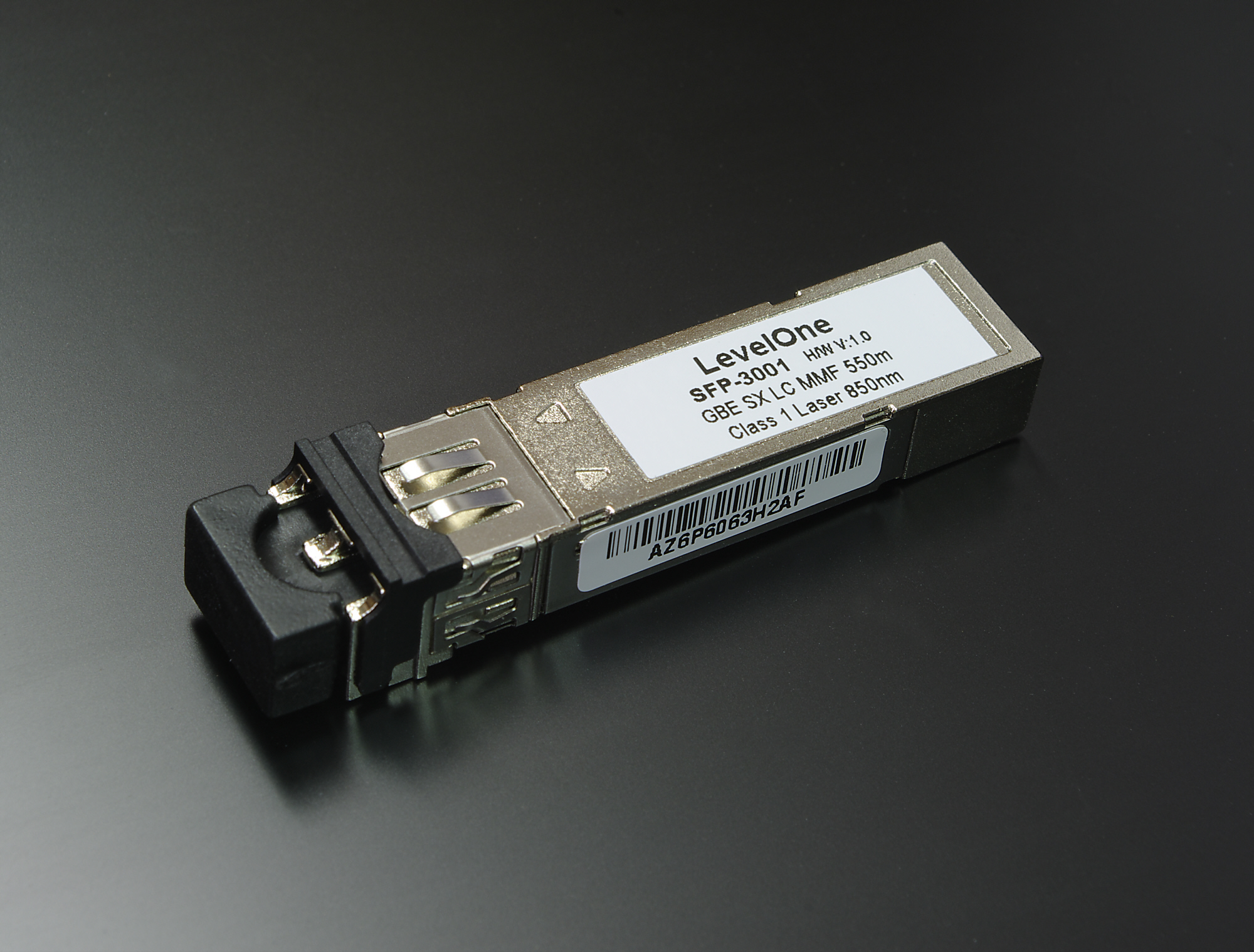 LevelOne SFP-3001 Multi-Mode SFP Transceiver